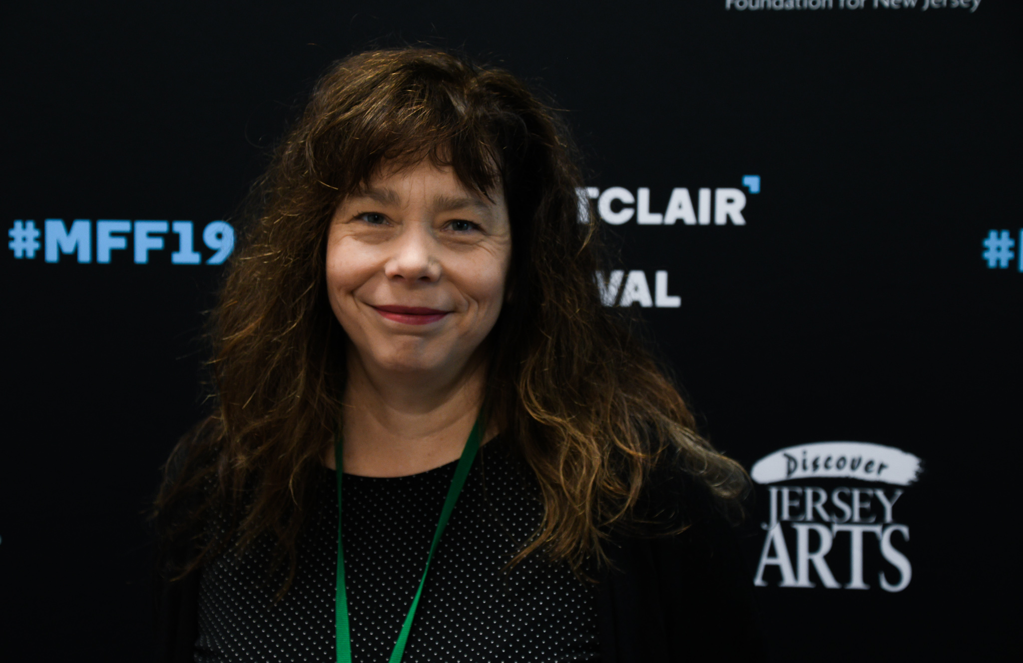 Susan Skoog at an exhibition of short films of Montclair Film during the Montclair Film Festival 2019.